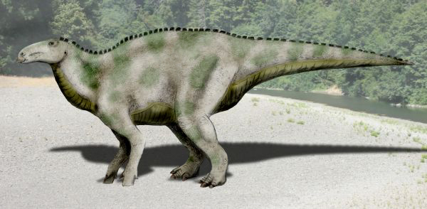 Jeyawati